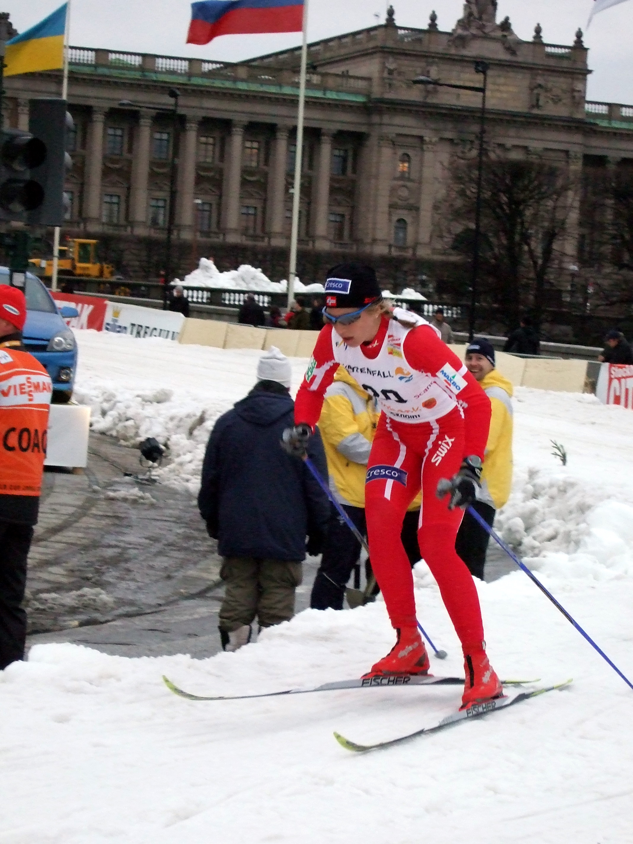 Astrid Jacobsen at the Royal Castle World Cup sprint in Stockholm, Sweden